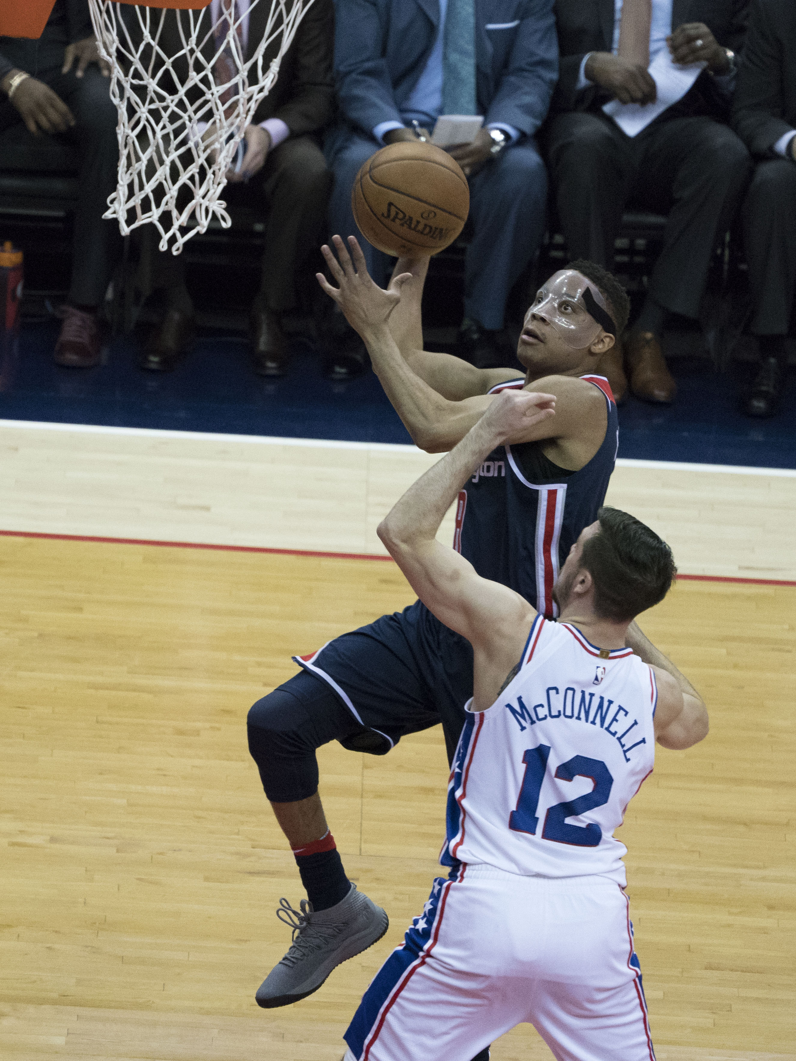 76ers at Wizards 2/25/18